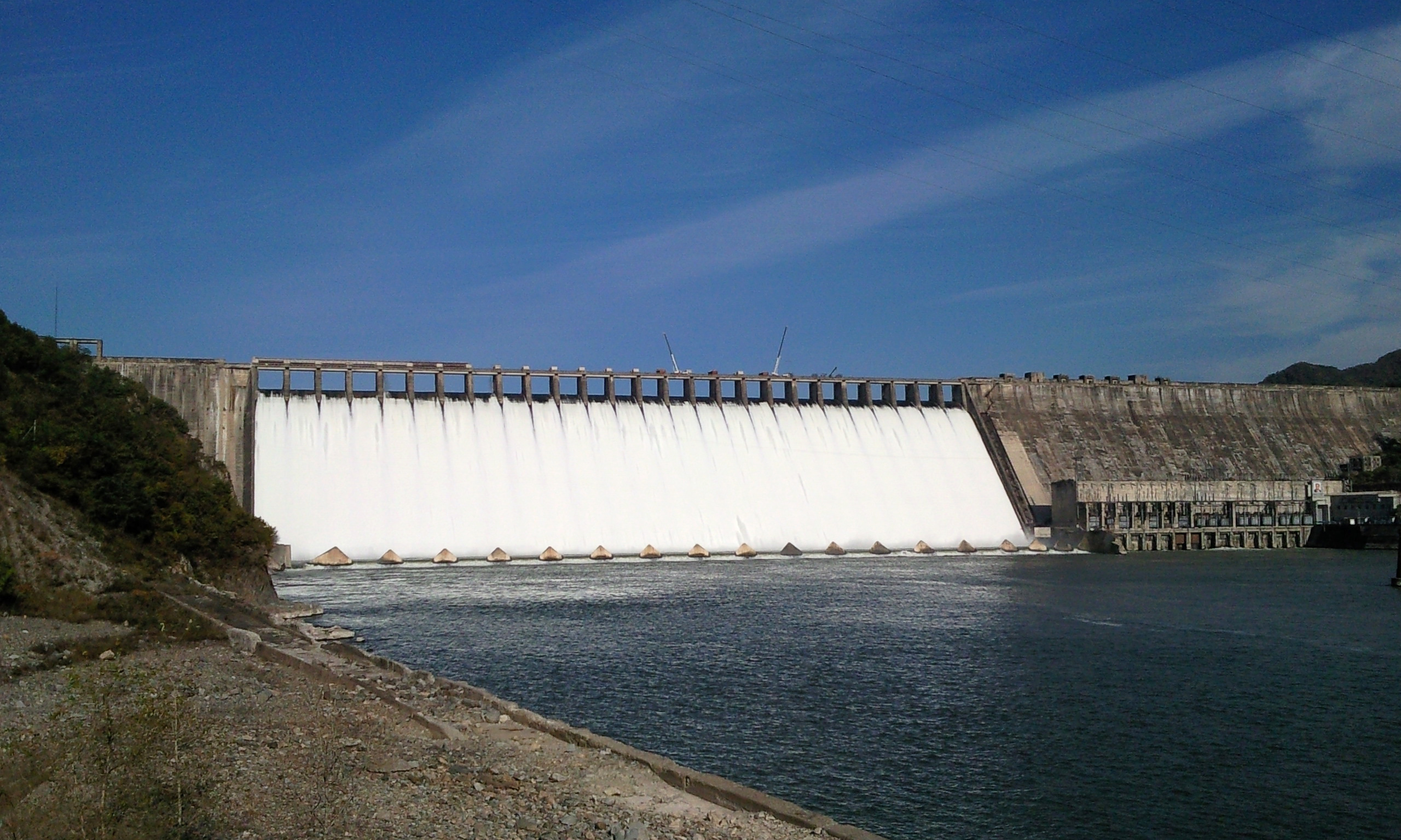 The Supung Dam on the Yalu River bordering China and North Korea.